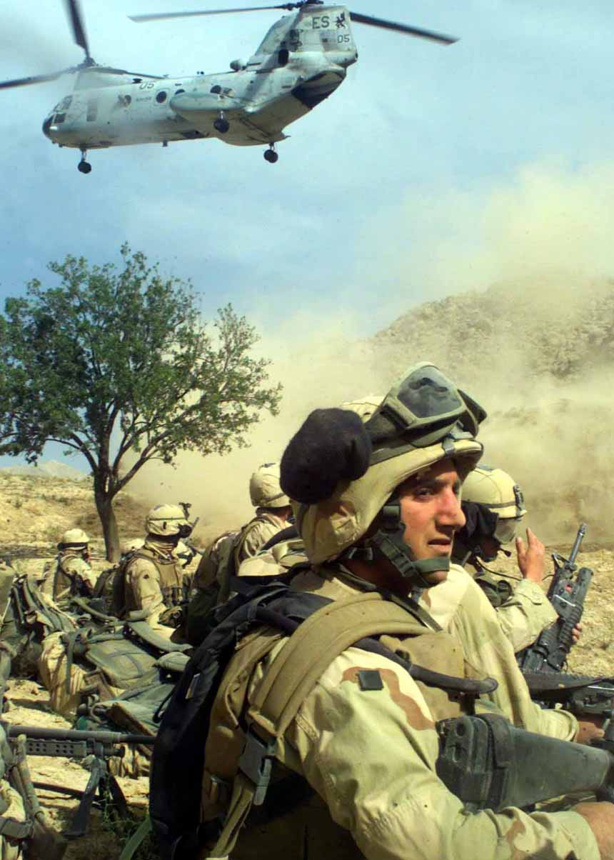 South Central Afghanistan (May 6, 2004) - Lance corporal Mike Carro holds security for the marines assigned to Battalion Landing Team 1/6, after disembarking a marine CH-46 Sea Knight helicopter during the initial surge of the 22nd Marine Expeditionary Unit (MEU) into South Central Afghanistan. During the 22 MEU's deployment to Afghanistan, they served as the main effort of Combined Joint Task Force One Eight Zero's (CJTF-180) Operation Mountain Storm. The operation was designed to preempt a long-anticipated Taliban spring offensive and help set the conditions for successful voter registration and national-level elections.